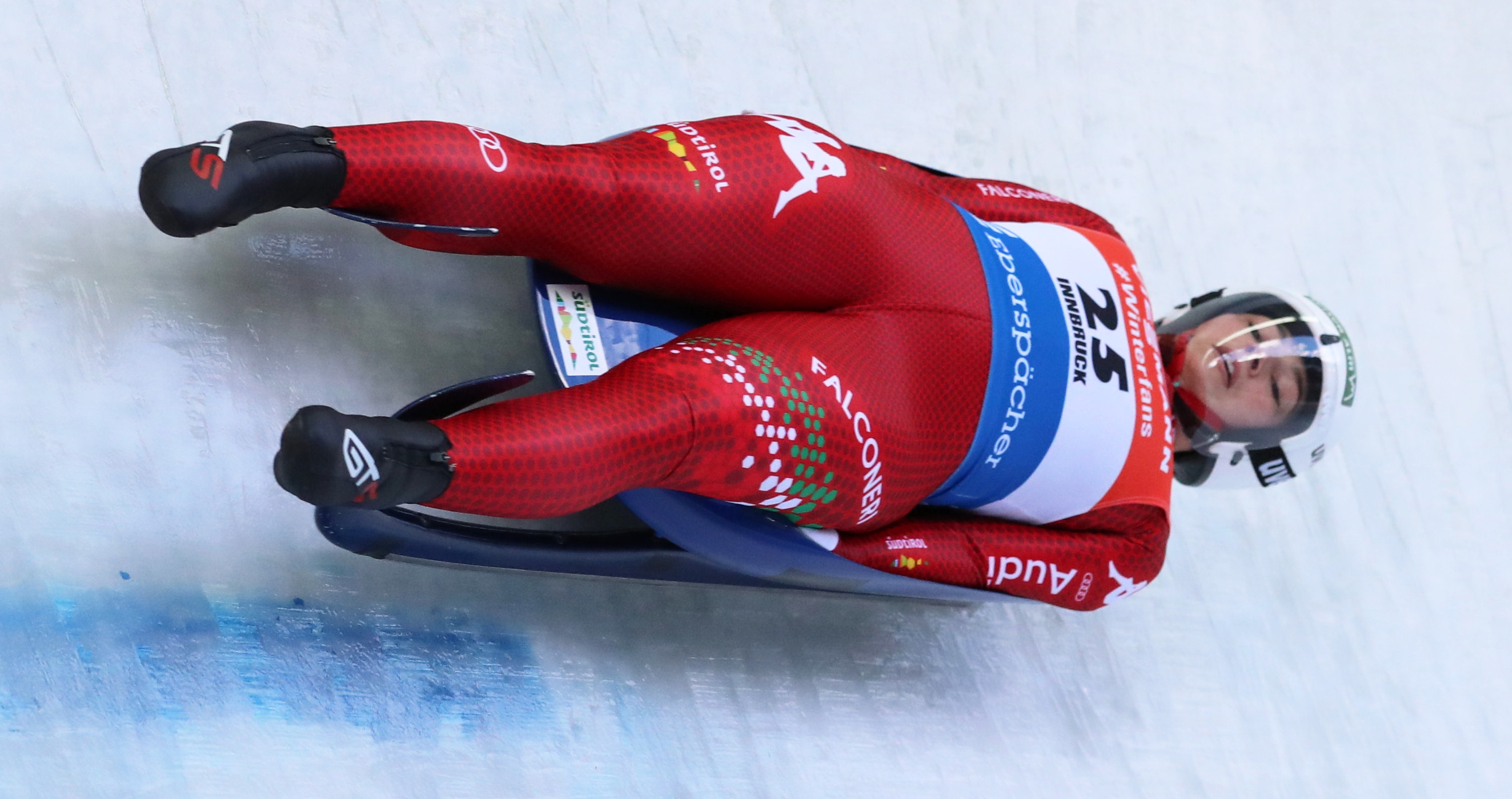 Women's World Cup race at the 2018/19 Luge World Cup in Innsbruck-Igls